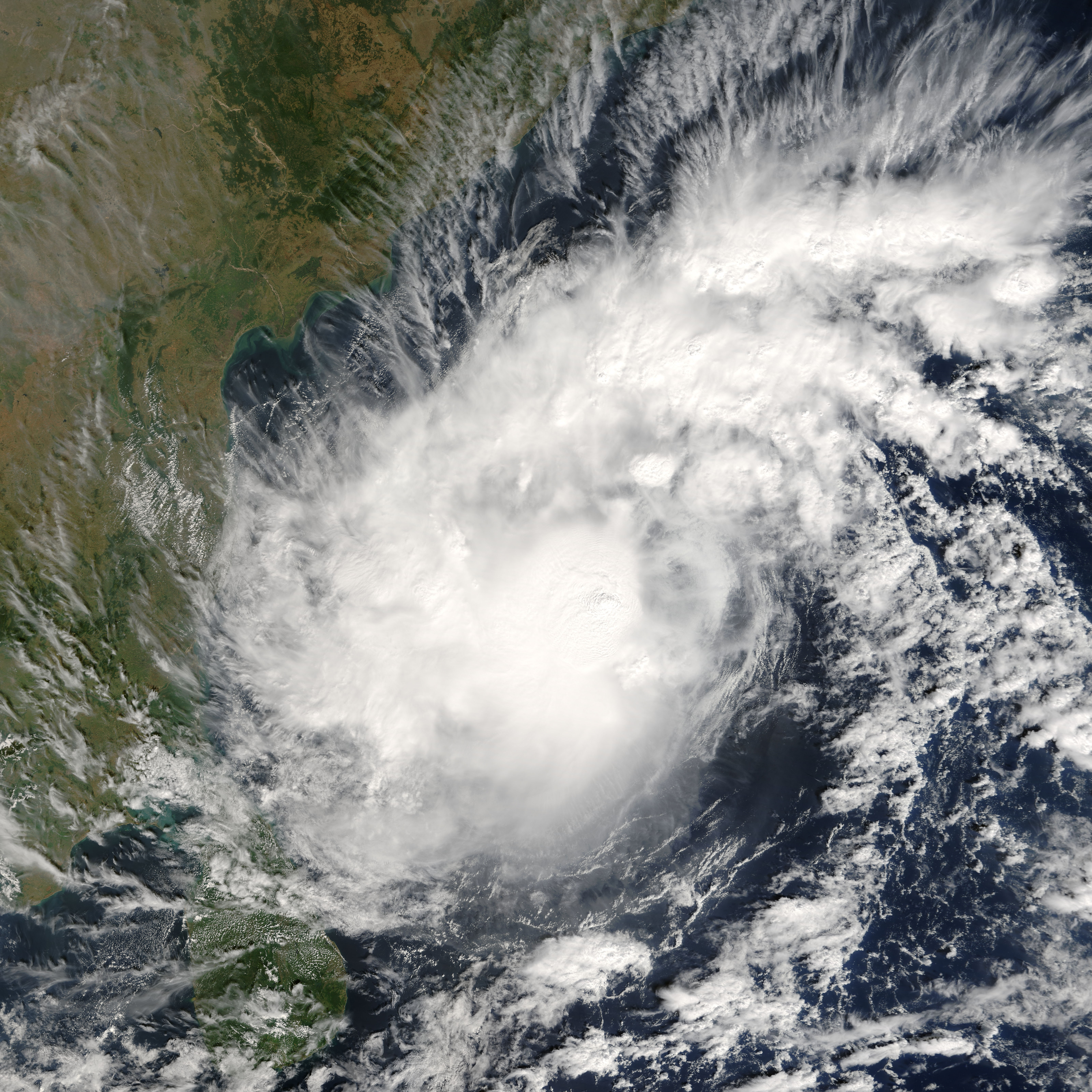 On November 29, 2005, a tropical cyclone brewed in the Bay of Bengal off the southern coast of India near the island of Sri Lanka. This image of the organizing storm, called Baaz, was captured by the Moderate Resolution Imaging Spectroradiometer (MODIS) on Tuesday, November 29, at 5:05 UTC (10:35 a.m. local time). The storm does not have the classical cyclone shape in the image, but some arcing bands of clouds are beginning to take shape to the northeast of the storm’s core, and several areas of “boiling” clouds suggest intense thunderstorm activity. As of the early afternoon of November 30, the storm had slowed in its west-northwest progress toward land, and forecasters at the Navy’s Joint Typhoon Warning Center were predicting that the storm would be arriving at the coast of India within 48 hours. According to news reports, thousands of people were evacuating the low-lying coastal states of Tamil Nadu and Andhra Pradesh in southern India, areas which were affected by the December 2004 tsunami as well as by flooding in recent weeks.